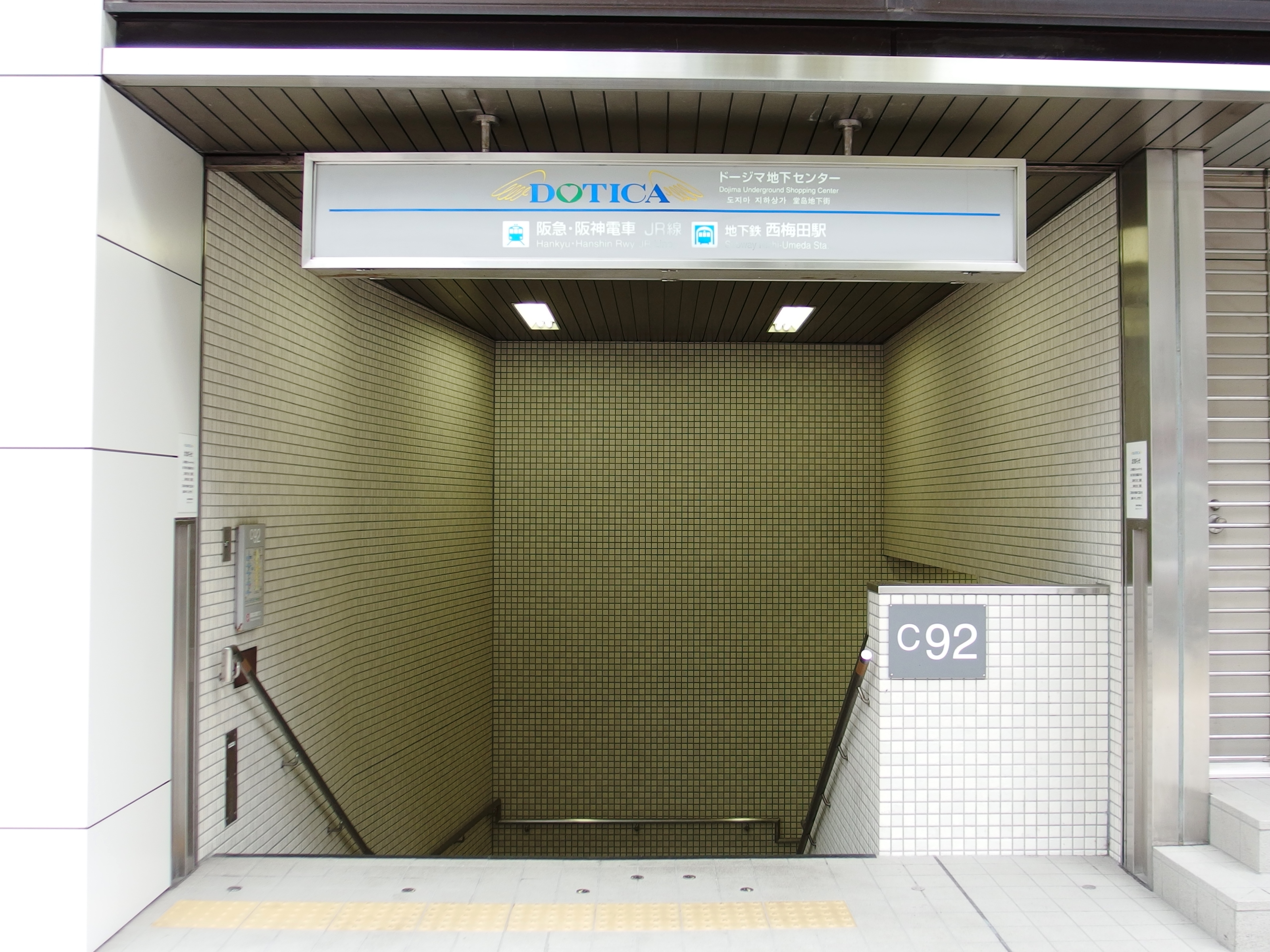 Dotica, Osaka, Osaka Prefecture, Japan